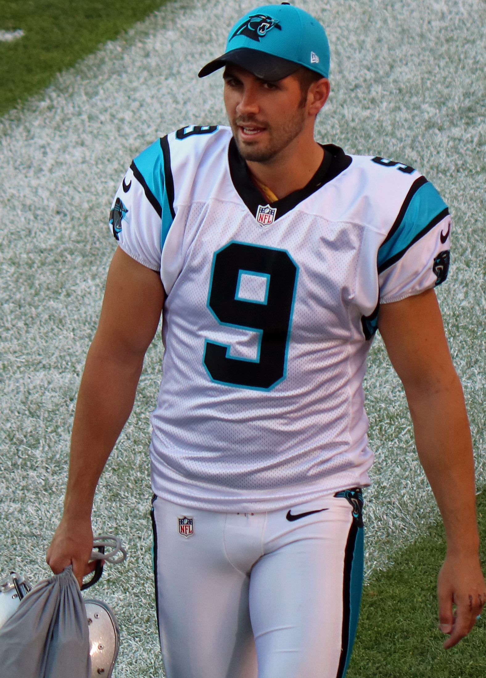 Graham Gano, a player on the National Football League.